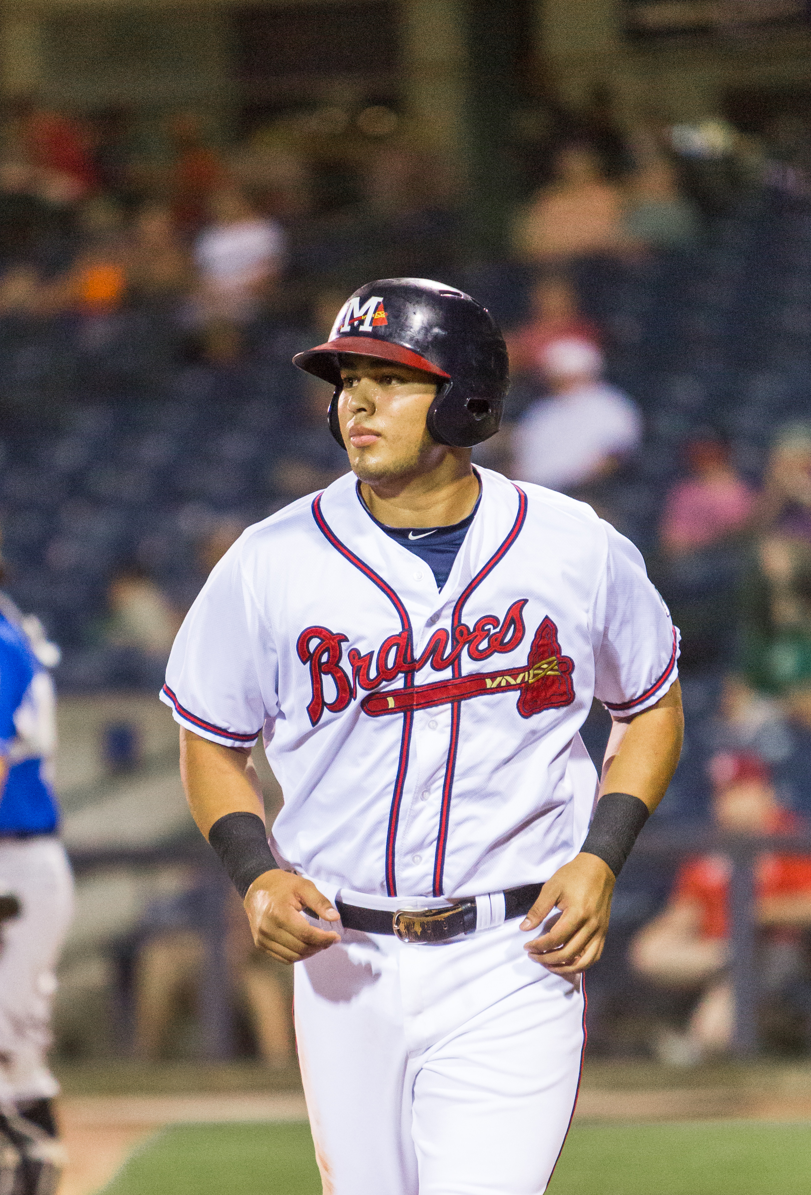 Professional baseball player Rio Ruiz in 2015 playing for the Mississippi Braves at Trustmark Park in Pearl, Mississippi.